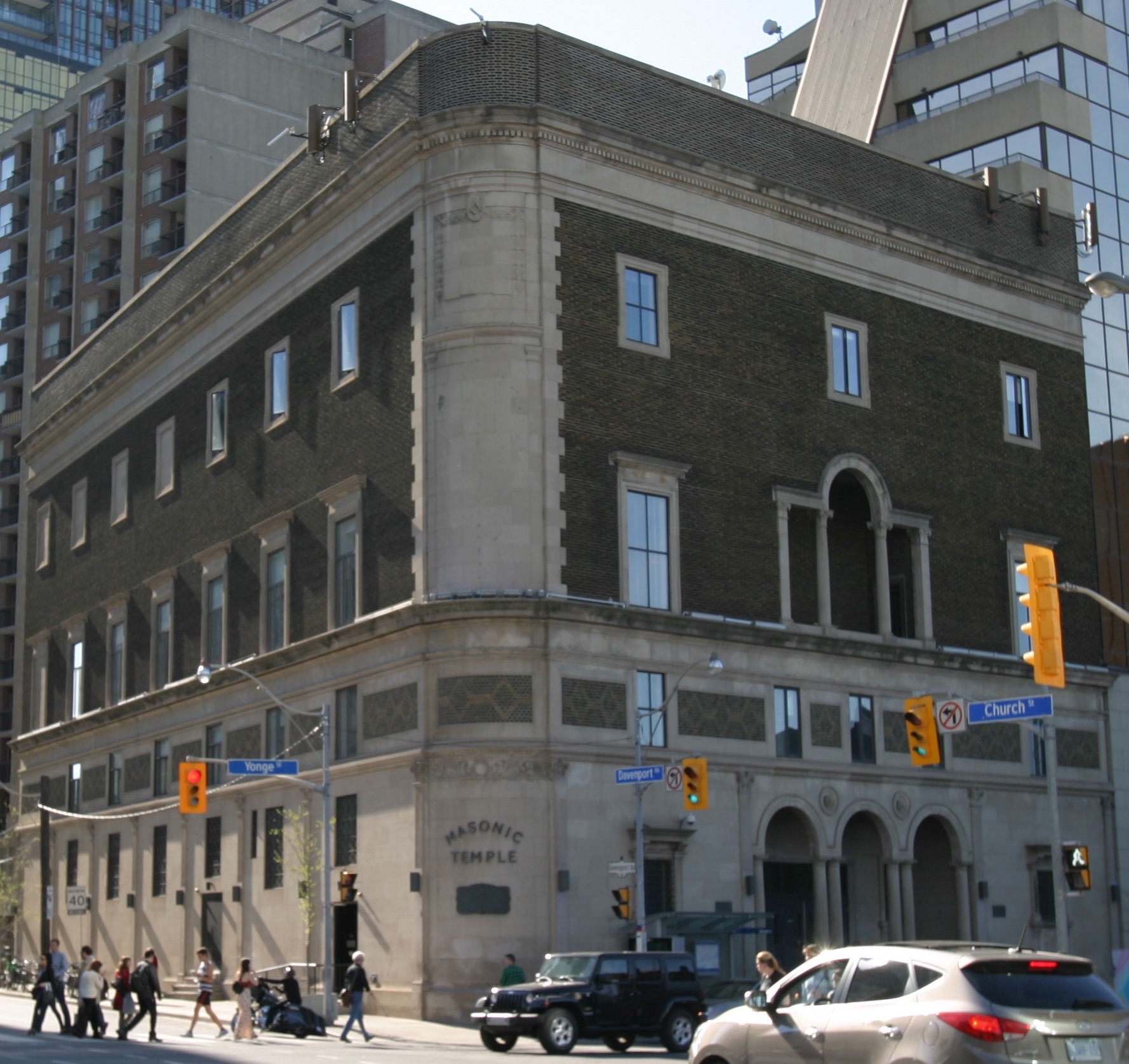 Photograph of 888 Yonge Street, Toronto, Ontario, from southeast corder of Yonge & Davenport in May, 2016.